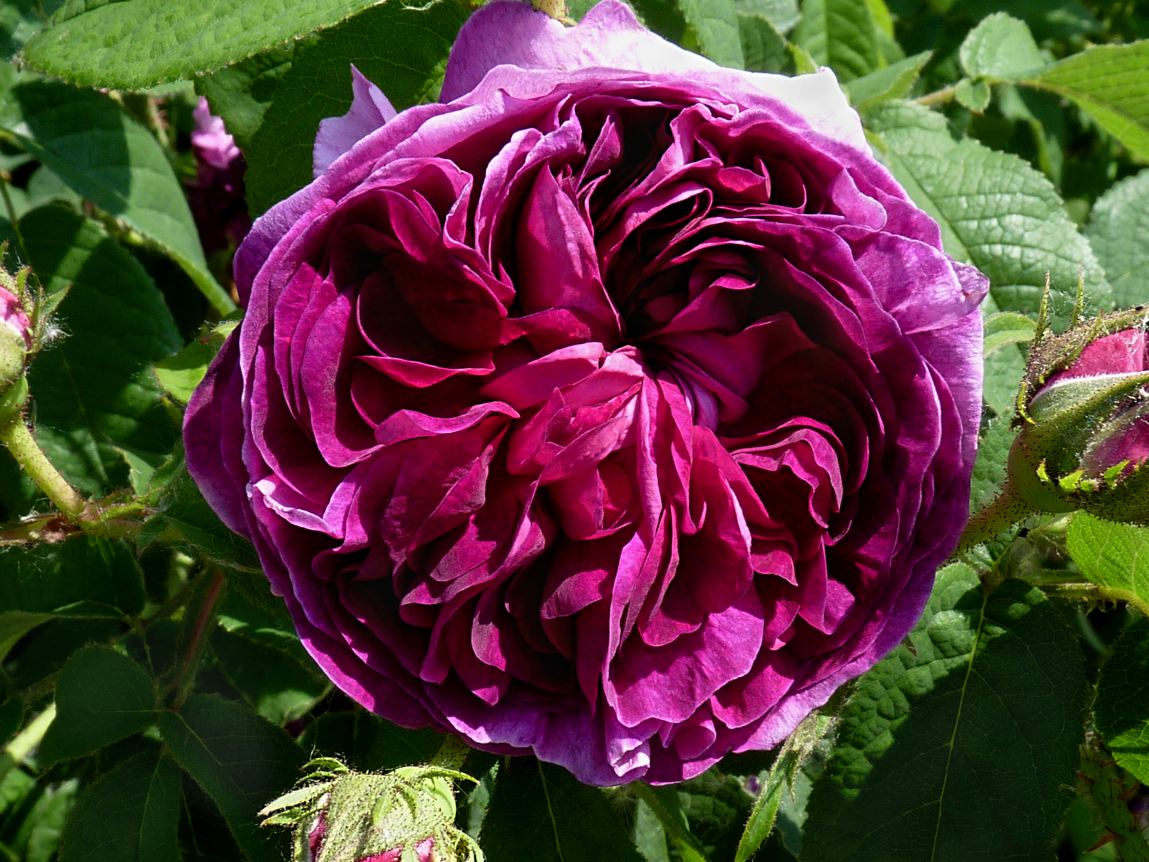 Rosa 'Charles de Mills' (Unknown, already cultivated at the XVIIIth century), in the international rose garden of Kortrijk, Belgium.